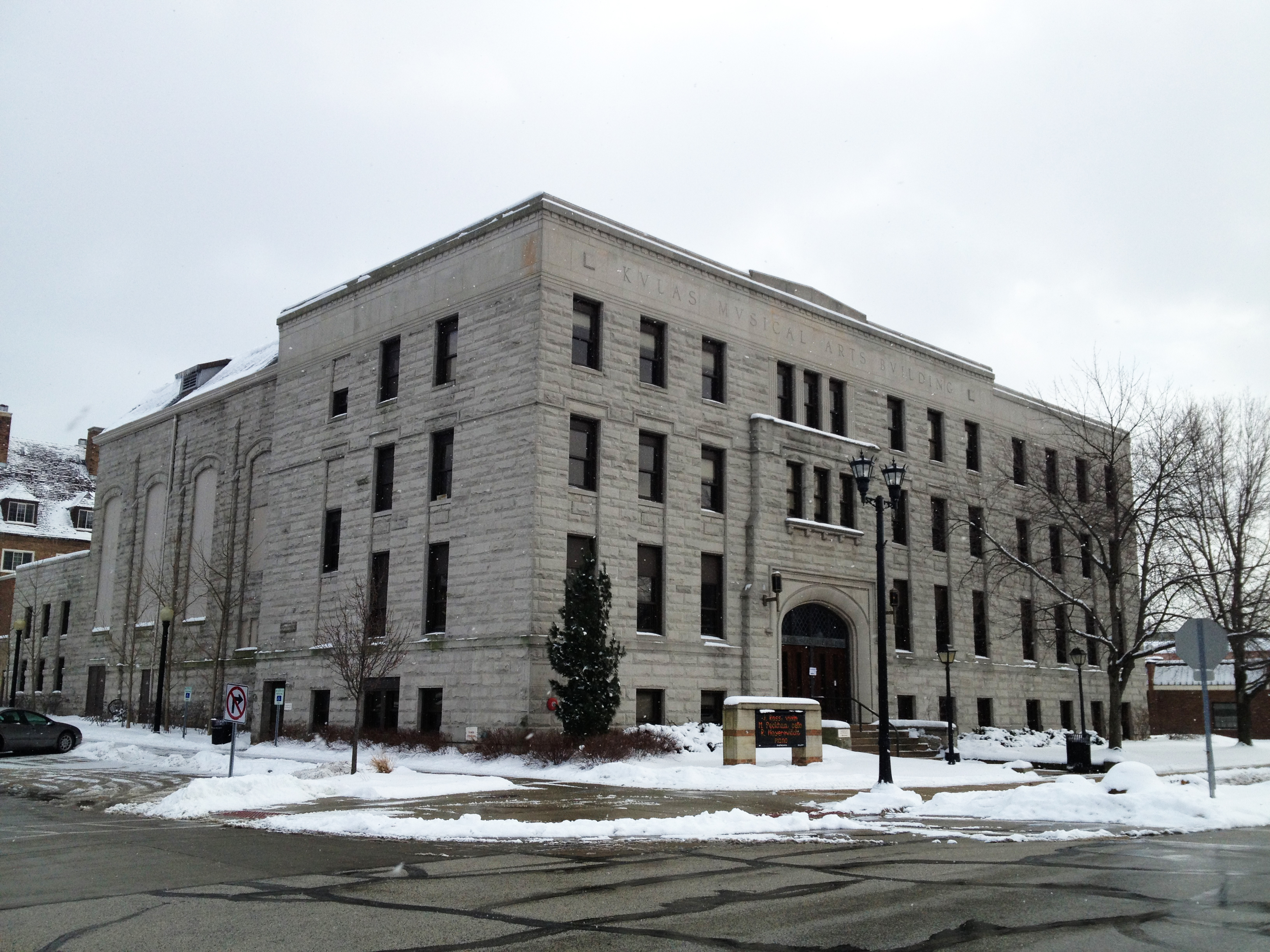 Kulas Hall connected to Bosel Musical Arts Center & Merner Pfieffer Hallon Baldwin Wallace University South Campus